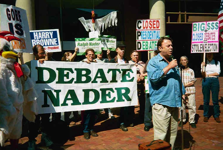 Christopher Hitchens speaks at a third party protest at the Presidential Debates Commission, Washington, DC.